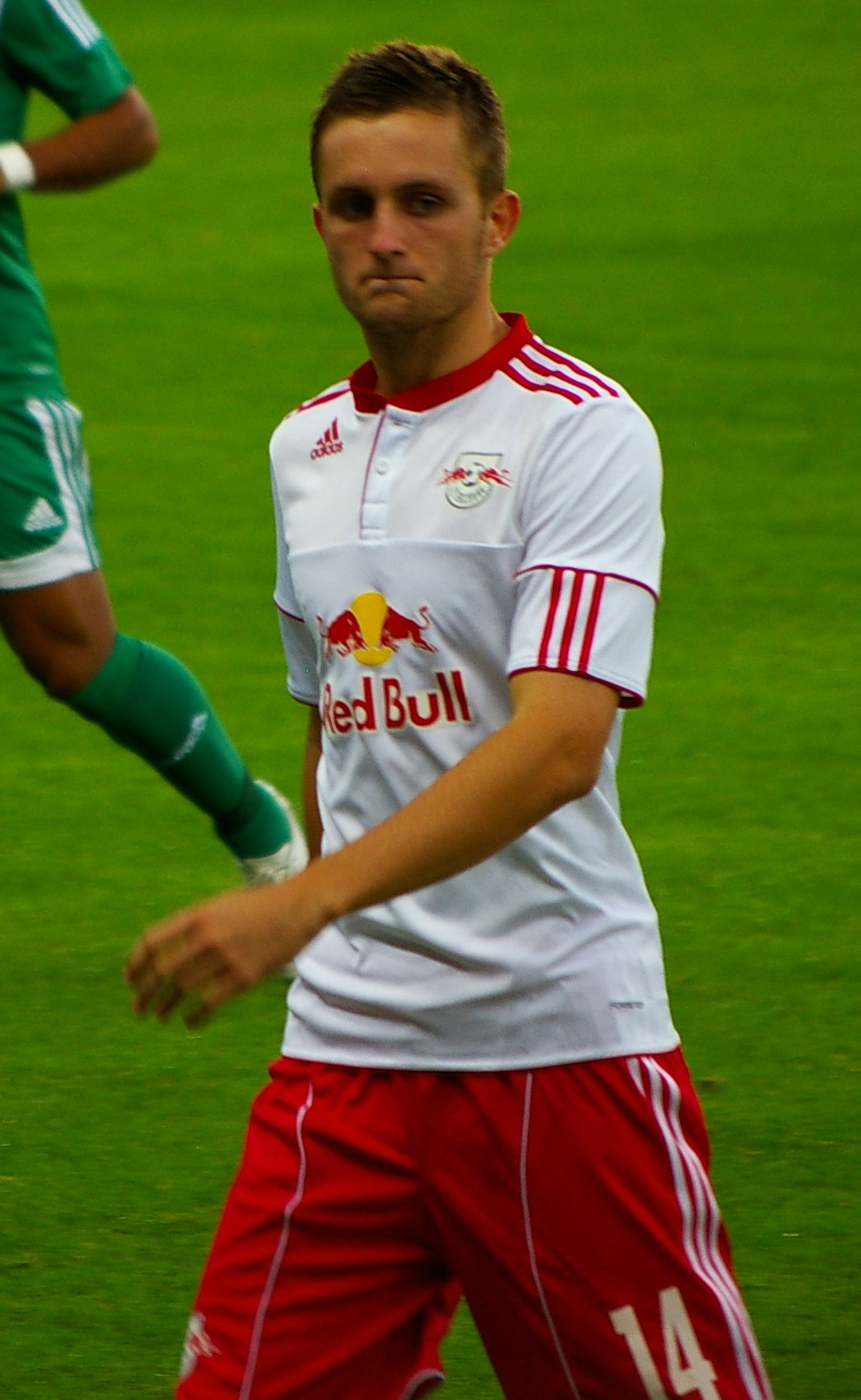 Jakob Jantscher midfielder FC Red Bull Salzburg